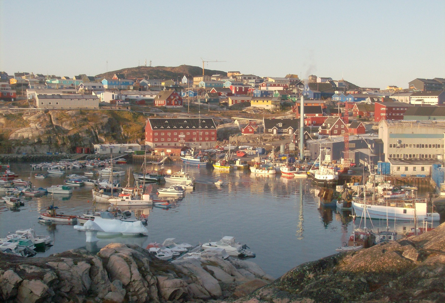 The harbour of Ilulissat, Greenland, at the end of the summer.